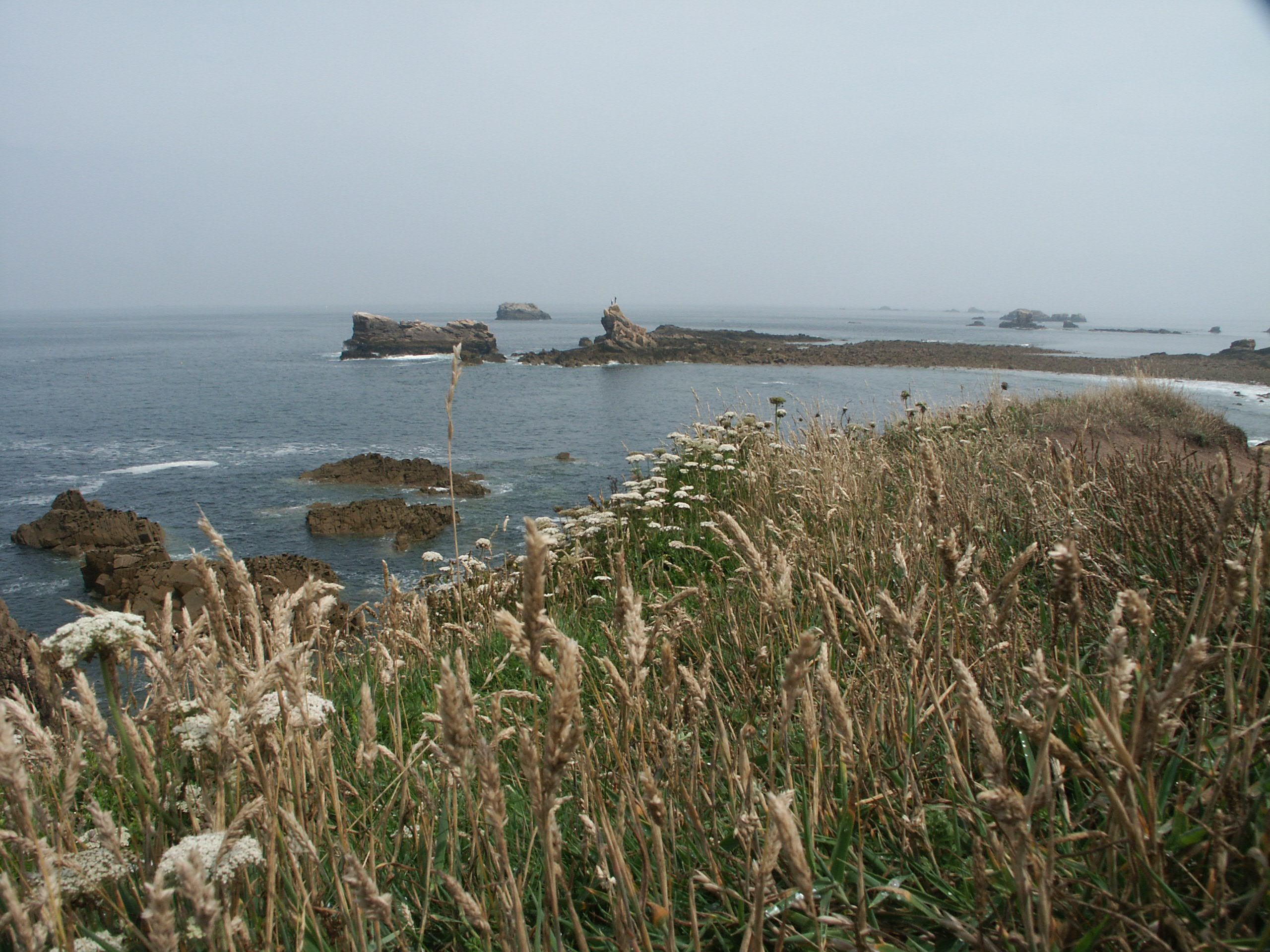 Pointe de Primel, Plougasnou, Finistère, Brittany, France